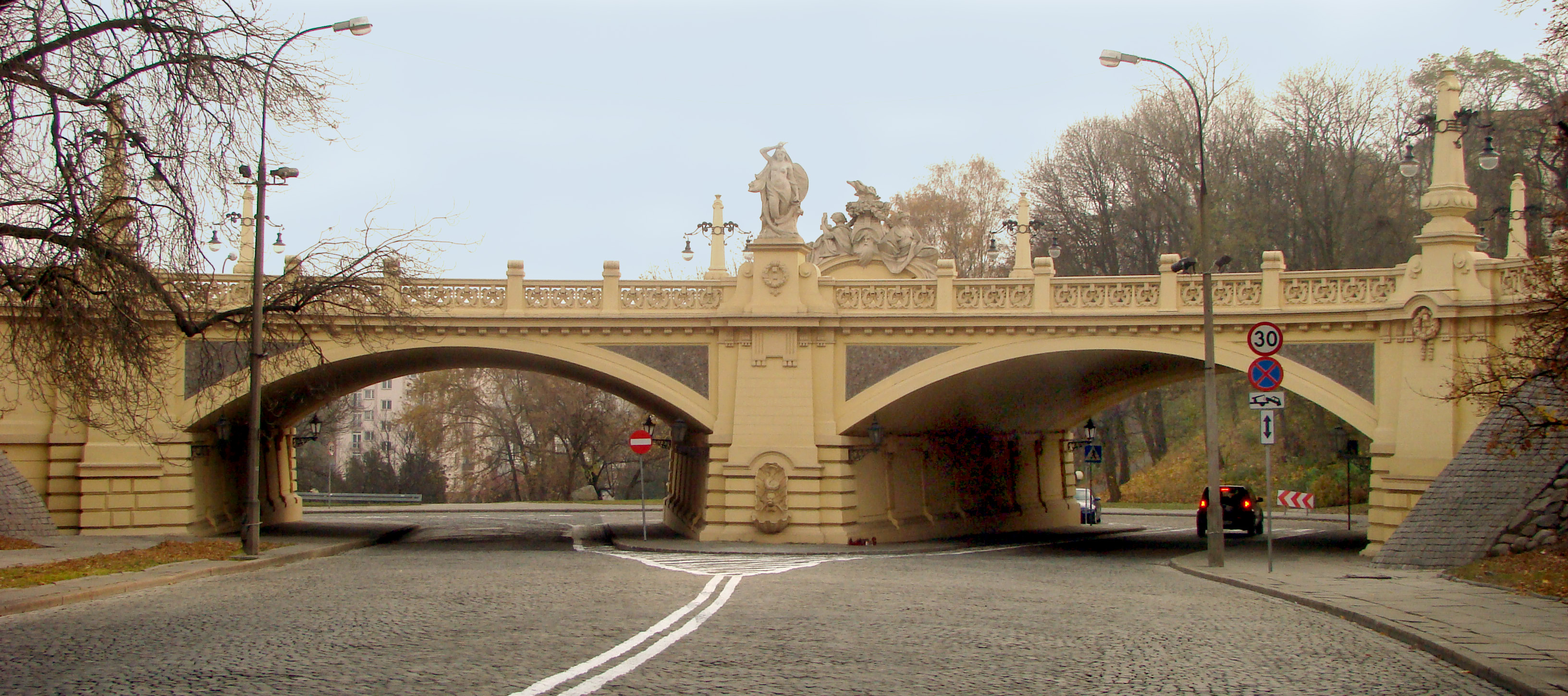 Markiewicz downward slope, Warsaw